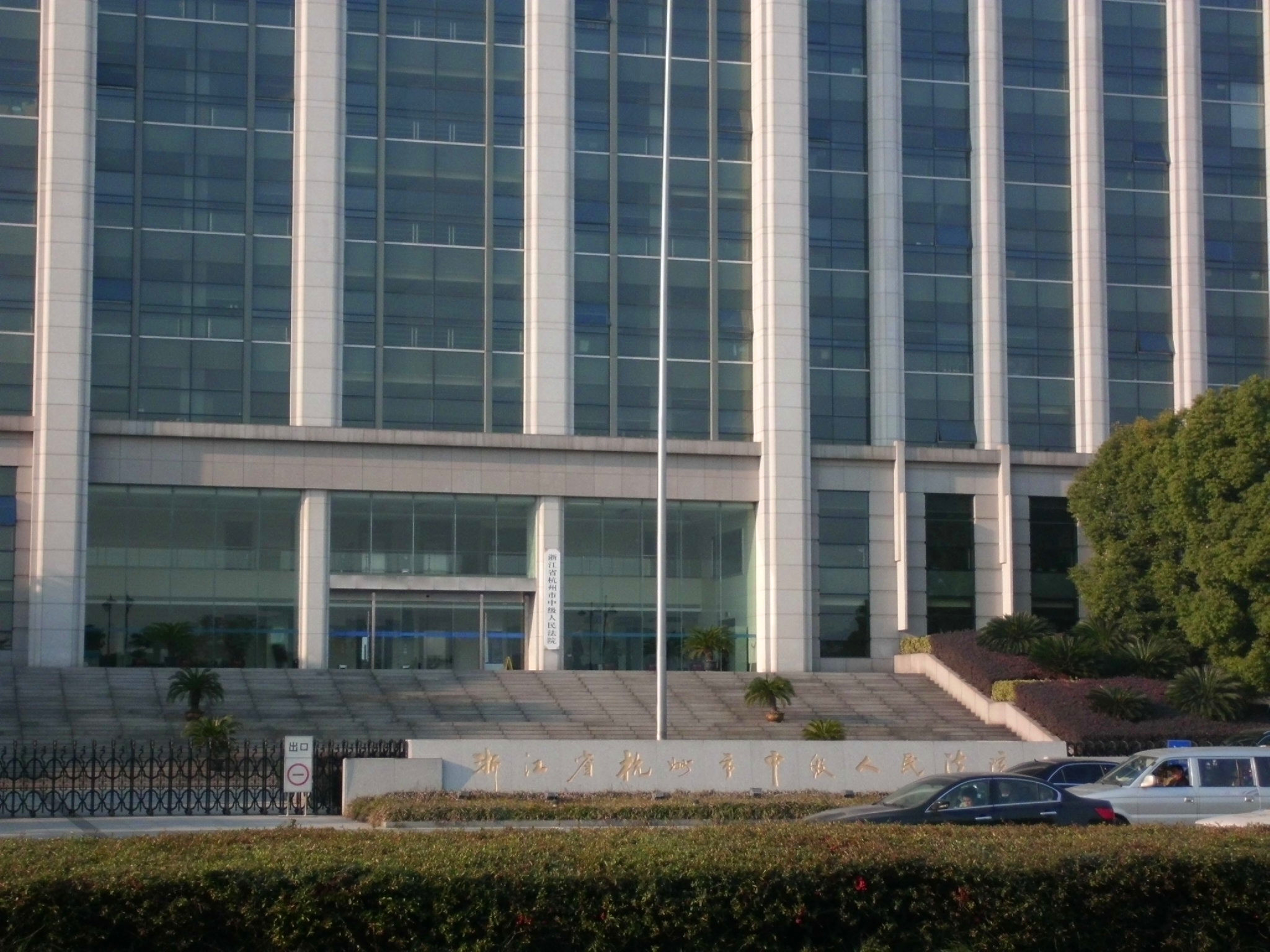 Hangzhou Intermediate People's Court